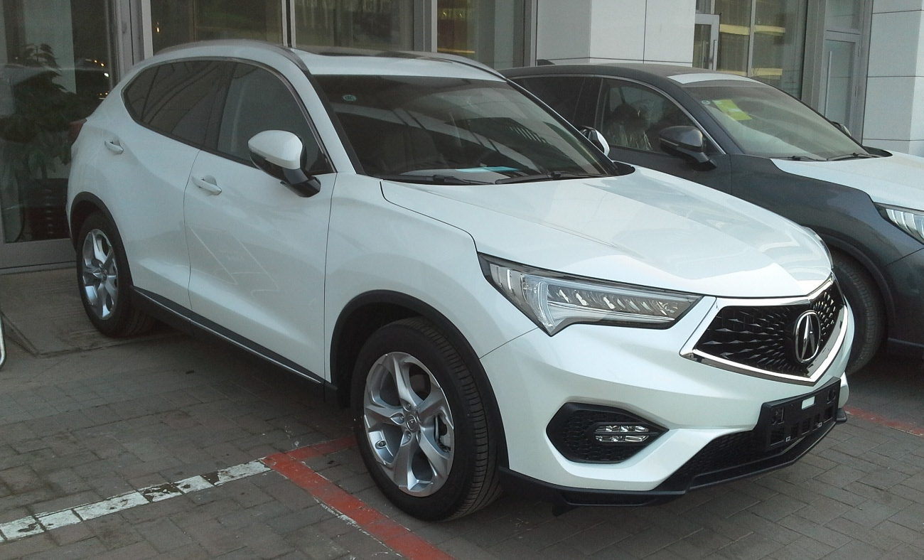 Acura CDX photographed in Shenyang, Liaoning province, China.